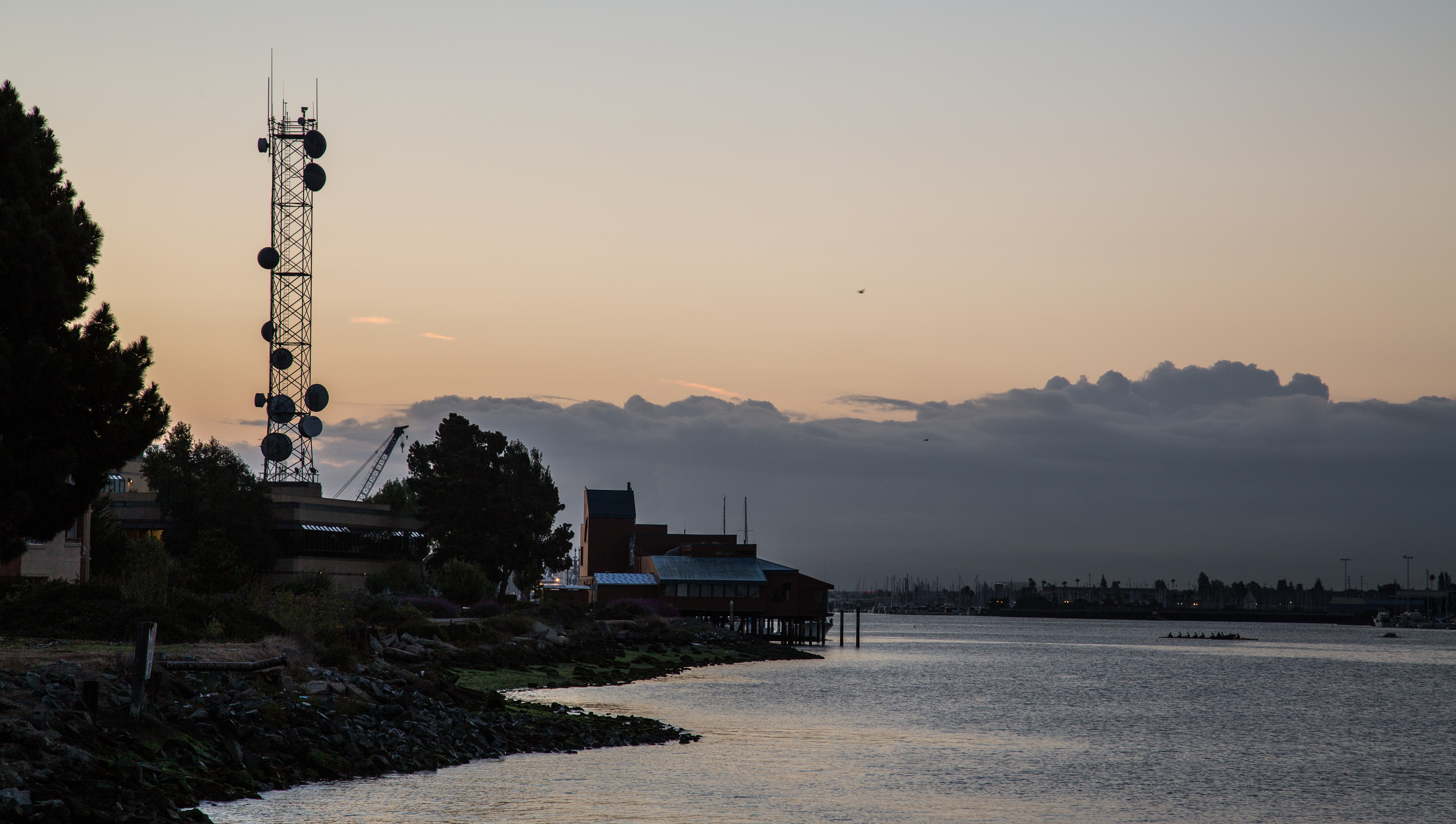 Port of Oakland and KTVU